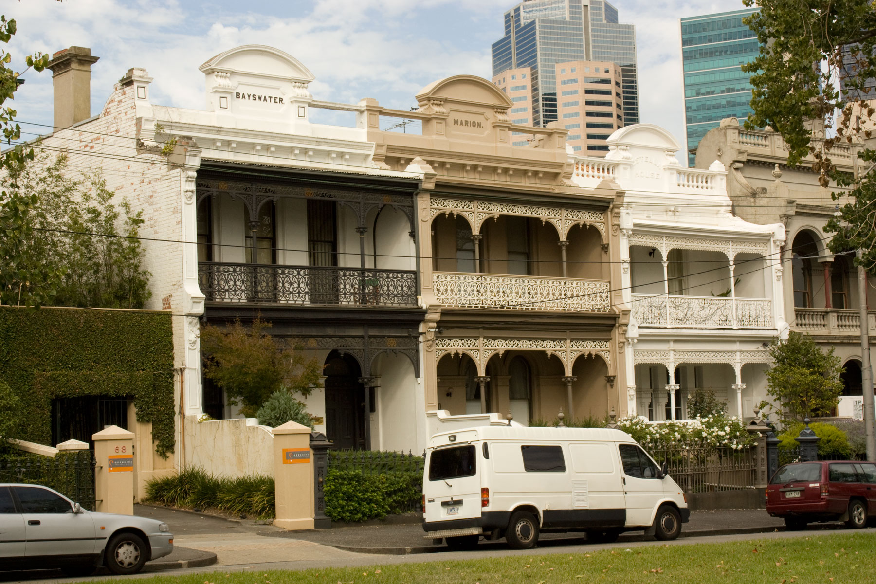 Drummond Street terraces